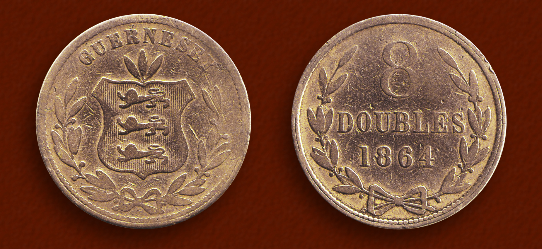 Guernesey 8 Doubles 1864. 31.6mm, 9.6g, Bronze KM#7Obverse: GUERNSESEY with a three lion crest topped with three leaves and two boughs like olive branches attached at bottom with a bow nearly encircling the crest.Reverse: 8 DOUBLES 1864 in center of coin with the same boughs form obverse underneath but with a larger and more detailed bow. Source" "The Cooper Collections" (uploader's private collection); Photographs and composite digital image by uploader, Centpacrr Summary Guernesey 8 Doubles 1864. 31.6mm, 9.6g, Bronze KM#7 Obverse: GUERNSESEY with a three lion crest topped with three leaves and two boughs like olive branches attached at bottom with a bow nearly encircling the crest. Reverse: 8 DOUBLES 1864 in center of coin with the same boughs form obverse underneath but with a larger and more detailed bow. Source" "The Cooper Collections" (uploader's private collection); Photographs and composite digital image by uploader, Centpacrr Captioned As {}